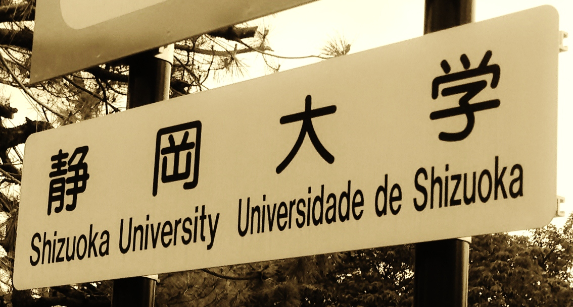 Universidade de Shizuoka